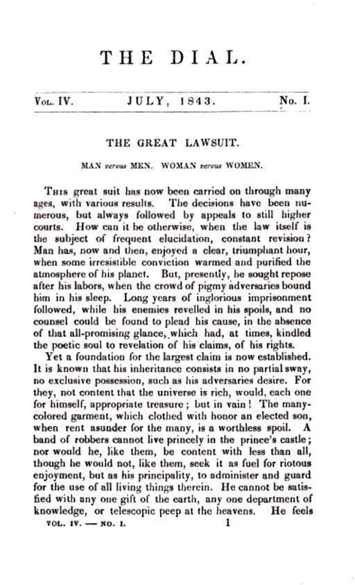 First page of "The Great Lawsuit" by Margaret Fuller. From the first page of the July 1843 issue of The Dial. Adjusted for clarity, removed stray markings and watermark from Google.